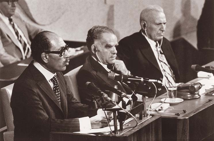 Speech of Egypt´s president Anwar Sadat to the Israeli Knesset in Jerusalem (al-Quds al-muhtalla), November 1977